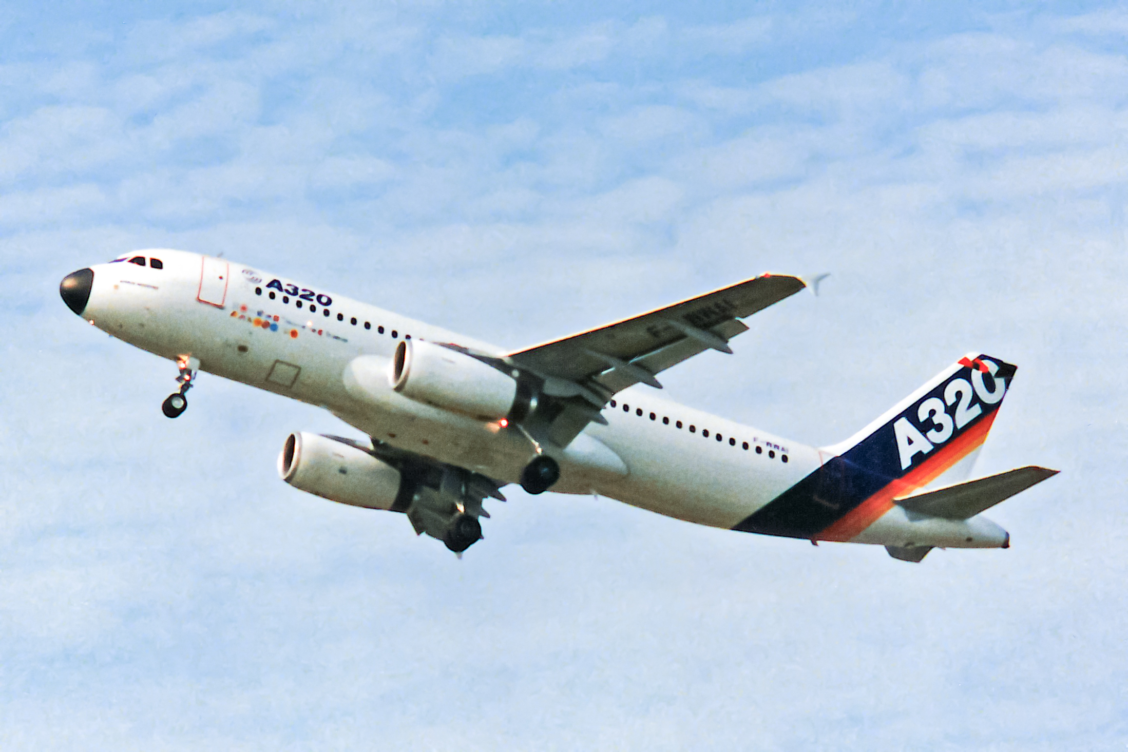 Although it's the original A320-100 prototype, it had been fitted with -200 winglets.